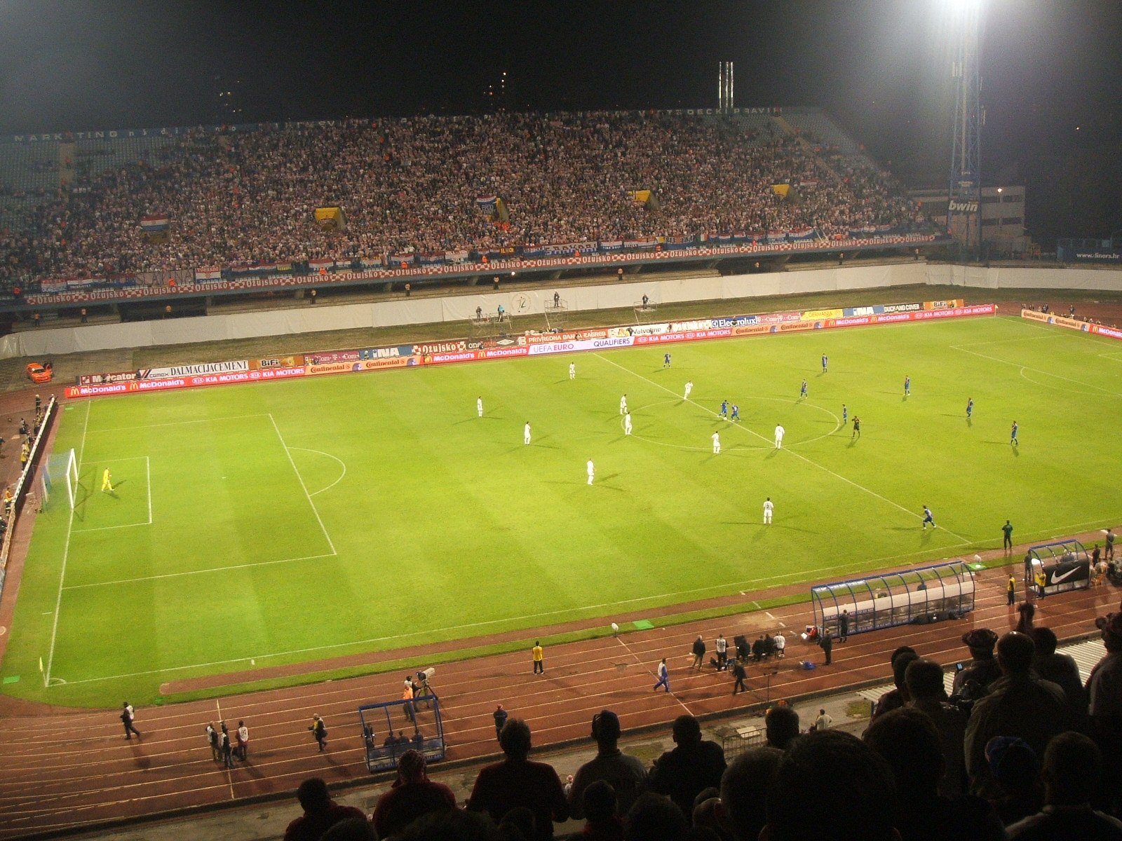 Kick off of the football match between Croatia and England in Zagreb.